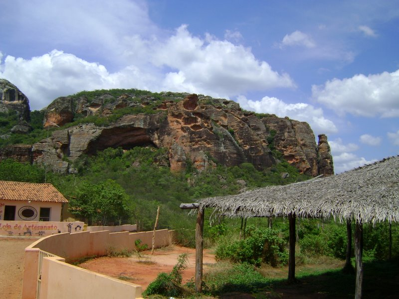 Ahead, brick house, home to people of Serra da Capivara that exchanged the predatory hunting and agriculture by tourism. In the background, the contrast: cave in the rock that housed the ancient inhabitants of this area.